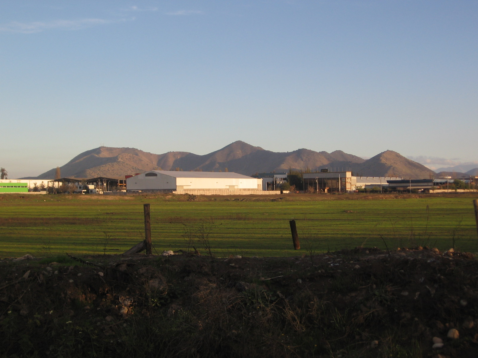 Cerro Chena (Chena Hill) view from the north (Lo Espejo Road)